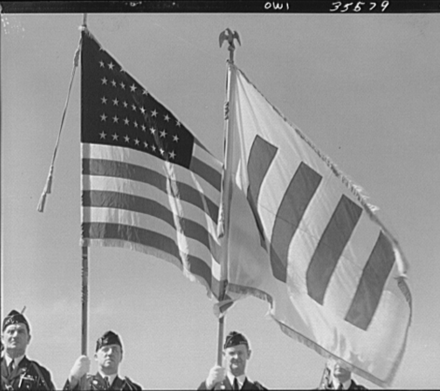 Photo of four United States soldiers flying the 1912-1959 flag of the United States (with 48 stars) alongside the "United Nations Honor Flag". Original caption: "The United Nations flag, an unofficial design by Brooks B. Harding, with four bars symbolizing the Four Freedoms beside the Stars and Stripes"